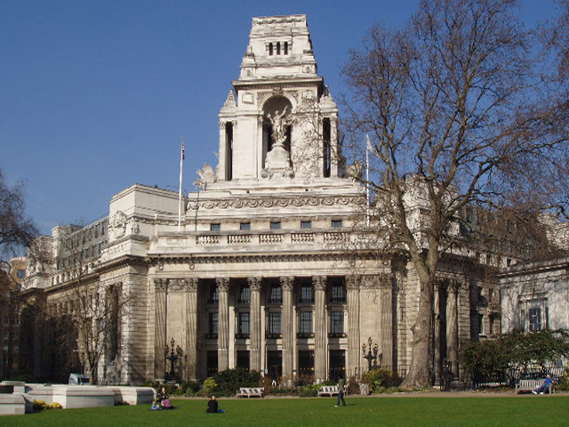 PLA Building facing Trinity Square. The Port of London wanted a building to reflect the status of London as a world trading power - and this is it. It was built early in the 20th century but in recent years, as London's dockland activity moved downstream, the PLA sold up and new occupants will be a major hotel chain. Expensive bed and breakfast rates no doubt!